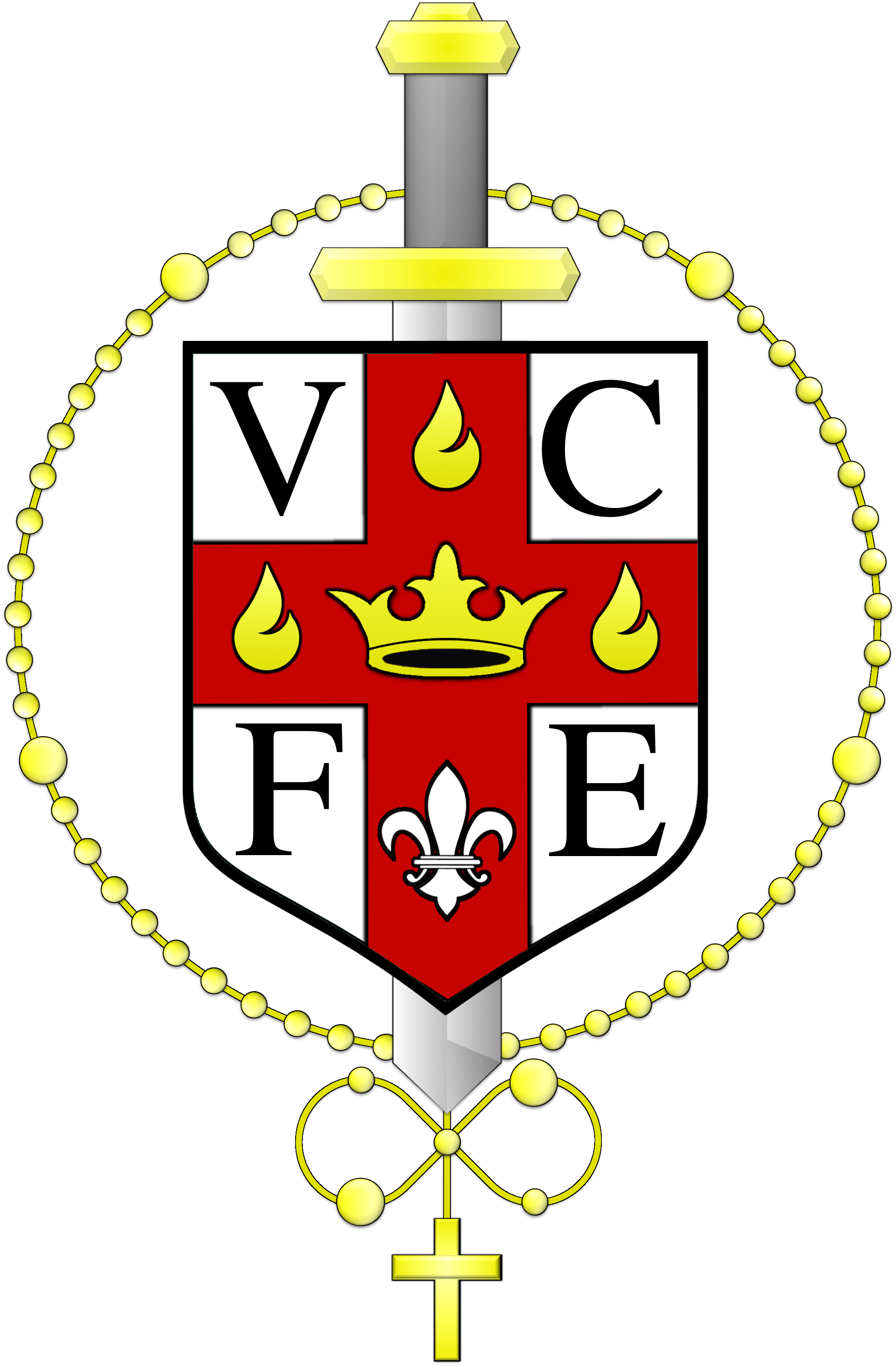 The Crest of the Institute of the Incarnate Word